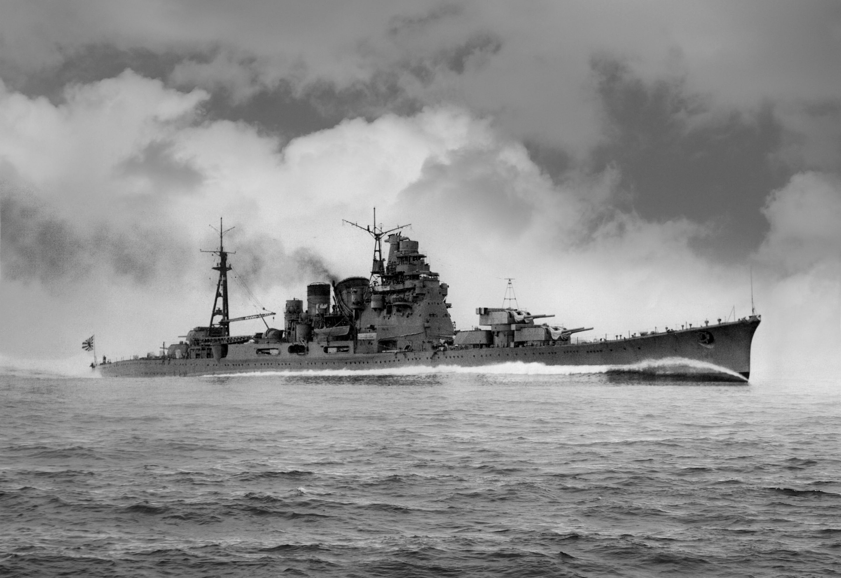 Takao, heavy cruiser of the Imperial Japanese Navy, on trial run off Tateyama, mouth of Tokyo Bay.